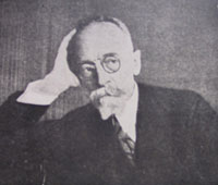 Karol Adamiecki died 1933